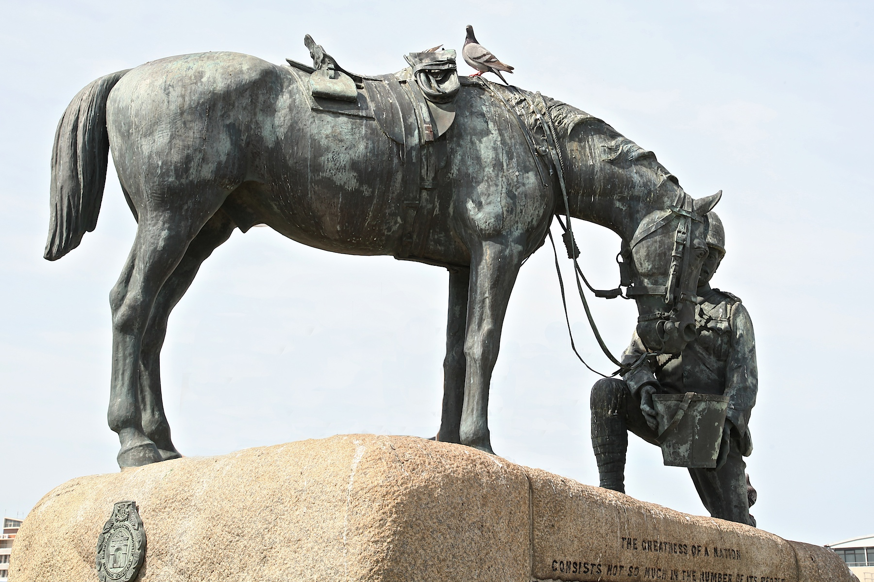 Horse Memorial, Cape Road, Port Elizabeth This media shows a South African Protected Site with SAHRA file reference 9/2/073/0033.